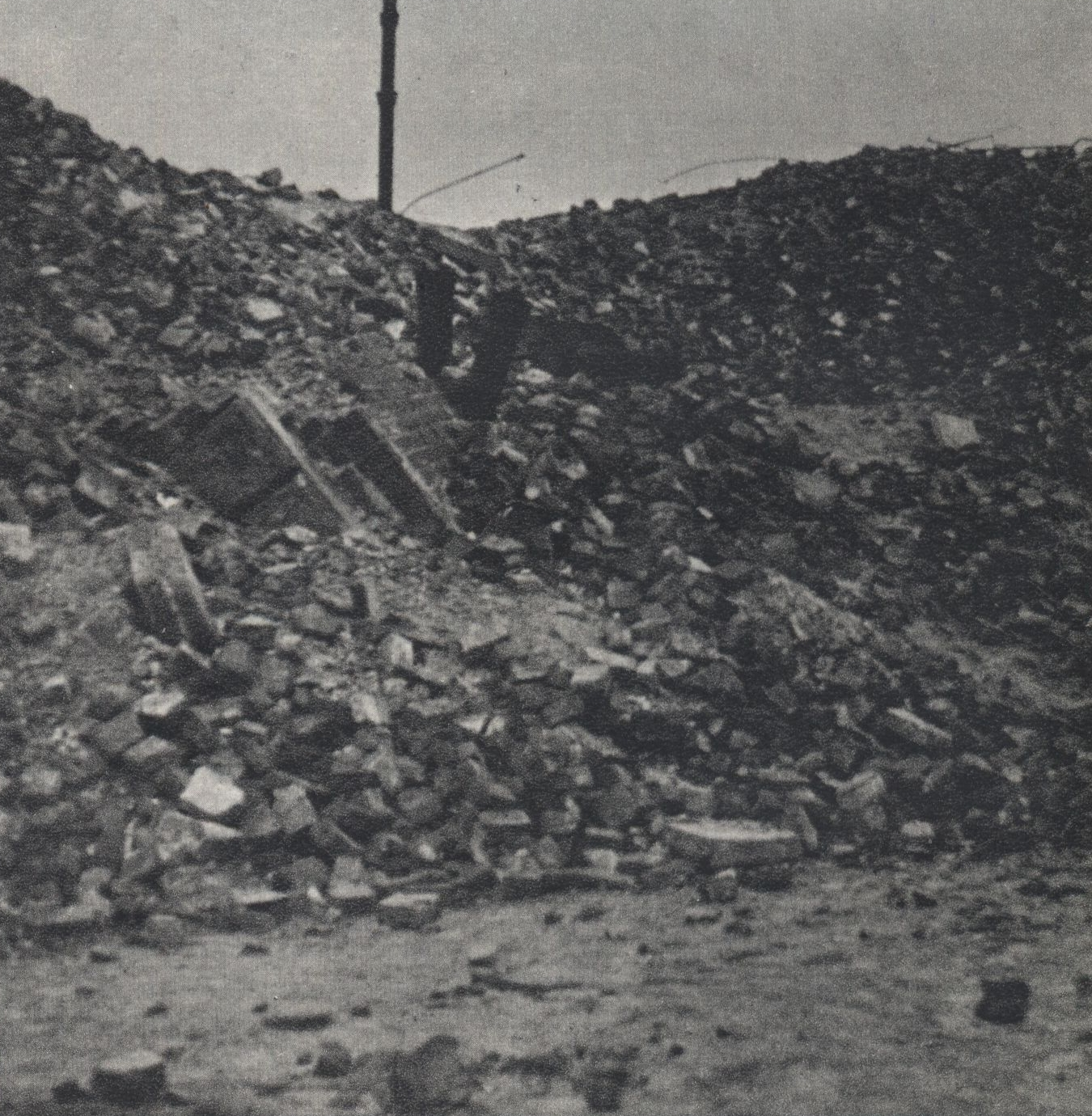 Ruins of the tenement house at 27 Dzielna Street in former Warsaw Ghetto. This building was located close to the infamous Pawiak prison. After the fall of Warsaw Ghetto Uprising backyard of this house was used by Nazi-German occupants as a place of secret executions. In the years 1943-1944 thousands of Pawiak inmates – Poles and Jews – were murder in this place.